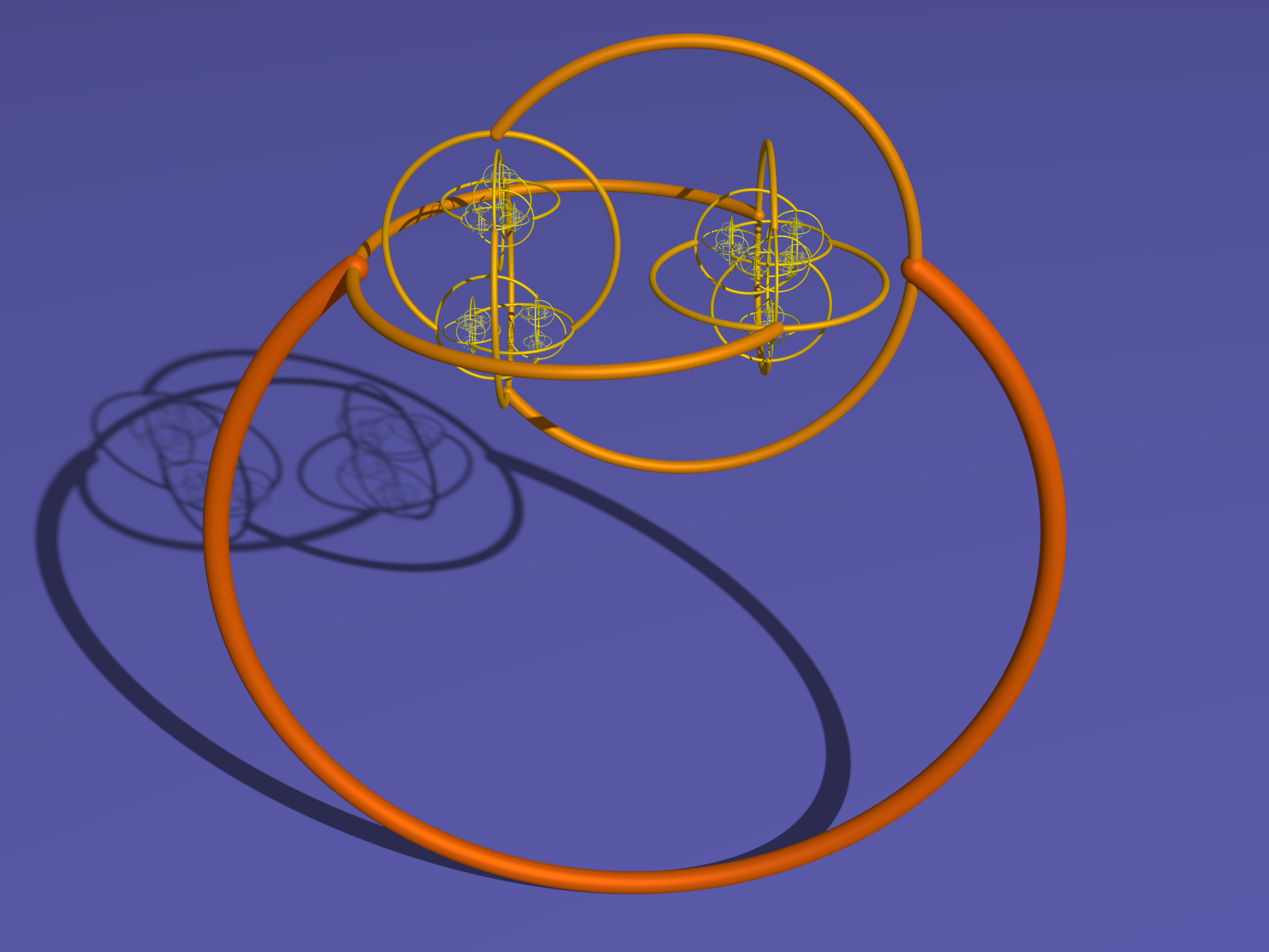 Alexander horned sphere, rendered with POV-Ray. (code at User_talk:BernardH~commonswiki)